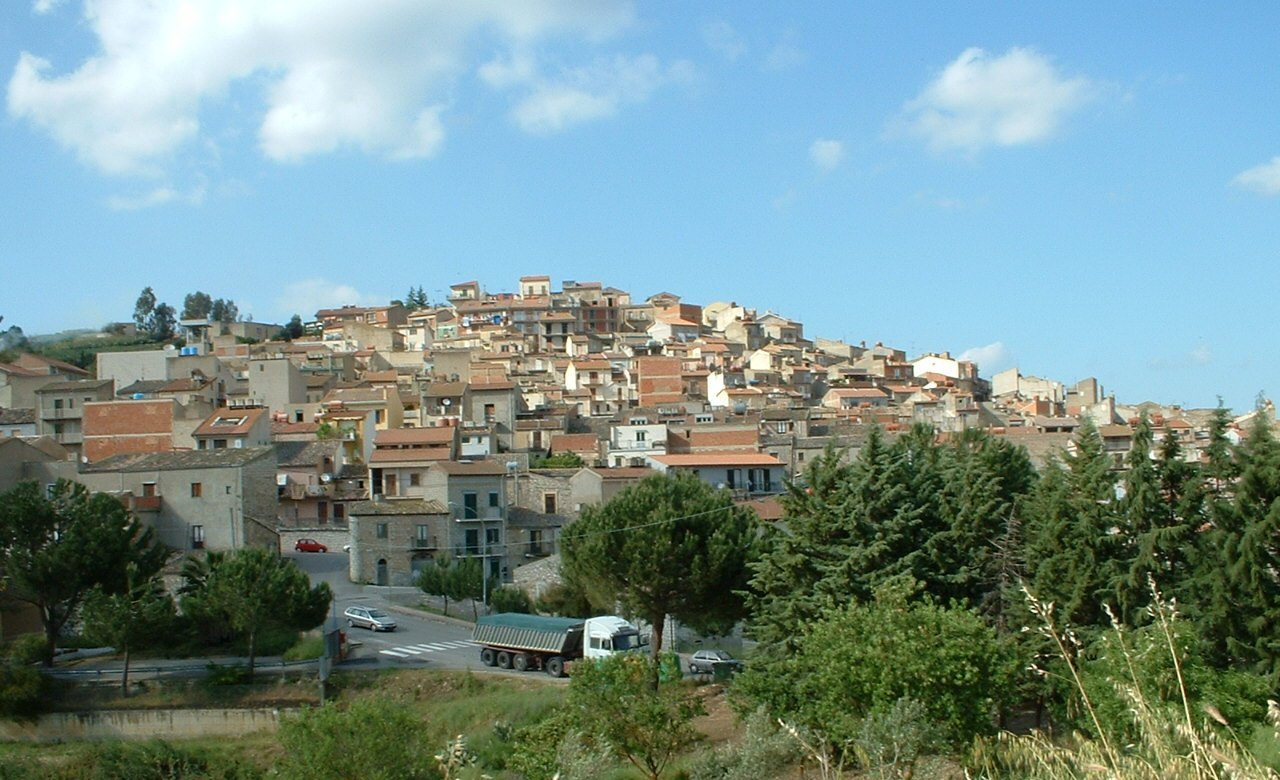 View of Resuttano (CL).